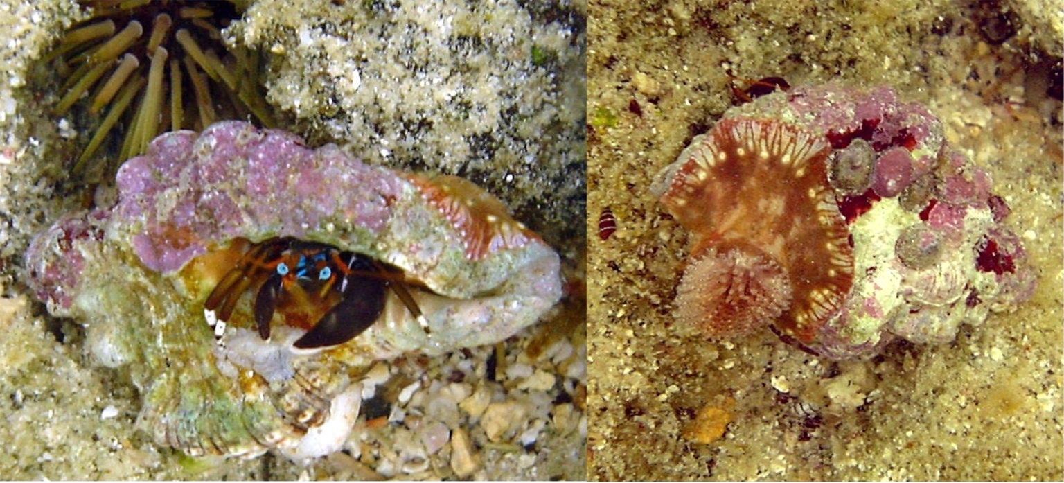 Hermit crab, Calcinus laevimanus with sea anemone, Calliactis. The images were taken in Tidal Pools in Kona. It is a vet unusual find. I was contacted by a researcher, who gave me a kind permission to use their email for the image description: "Actually the species you saw, Calcinus laevimanus, always lives only in shallow tidal pools. I'm sure the shell+anemone you saw recently belonged to a Dardanus because the anemone-associated Dardanus hermit crabs always carry that particular kind of anemone (Calliactis). So I think this was just a rare, happy 'accident' for the C. laevimanus. Dardanus lives deeper than C. laevimanus, I see it when I'm diving (around 3-15 meters of water). So it's kind of interesting that the Calcinus laevimanus found a shell that came from deeper water! By the way, I asked my adviser and he thinks the original shell occupant was probably Dardanus deformis or D. gemmatus, not D. pedunculatus. This is because D. pedunculatus is not known from Hawaii. Congratulations on finding a cool and unusual animal association!"